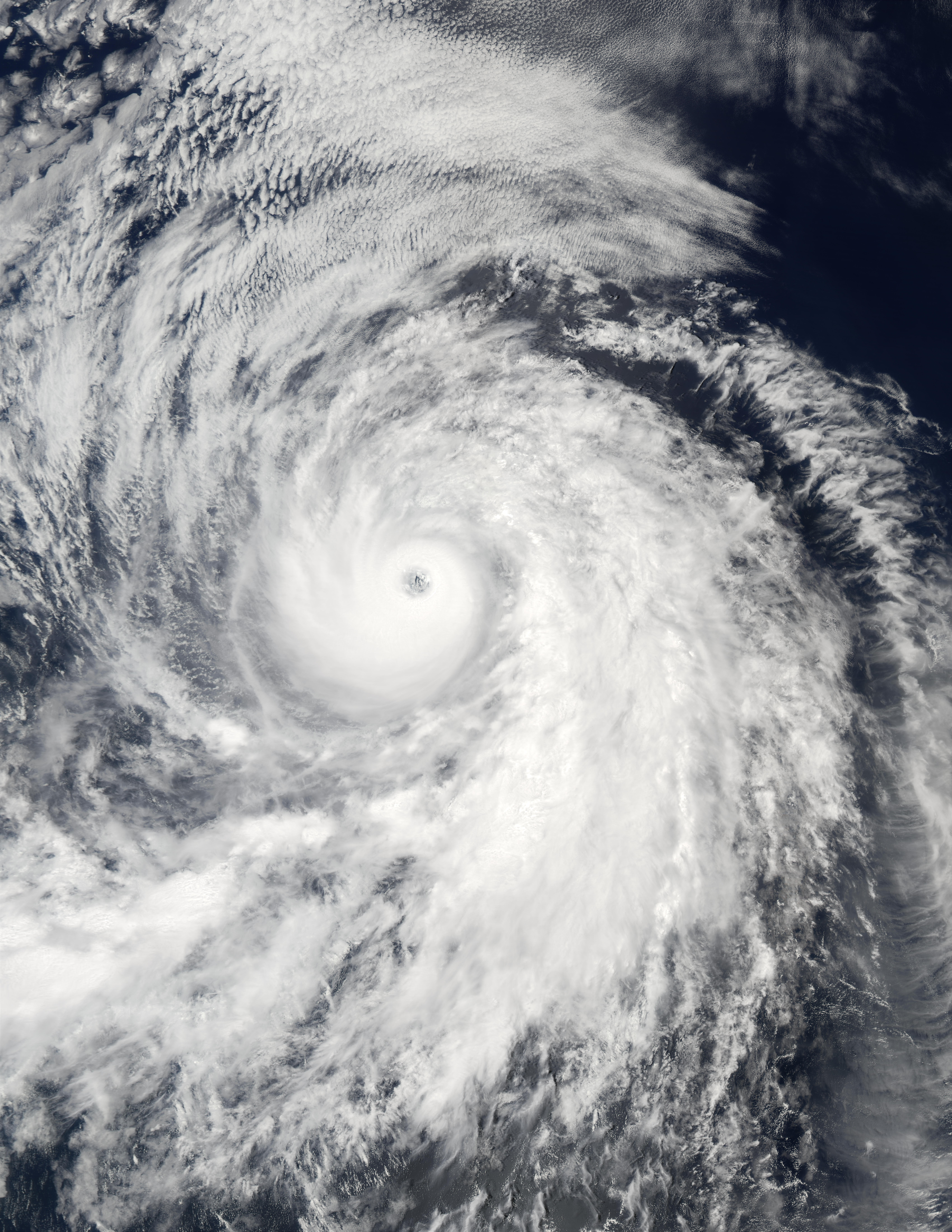 This true-color image of Hurricane Fausto was acquired August 24, 2002 by the Aqua MODIS instrument. Fausto started out on August 21st as a tropical depression, but later that same day was upgraded to a tropical storm. Less than 24 hours later, Fausto officially became a hurricane. Fausto spent six days as a hurricane, from August 22 to 26, peaking on the 24th as a level four hurricane (as shown in this image) with winds of 125 knots (1 knot = 1.15 mph) and gusts of up to 150. Fausto whirled northwest throughout the eastern Pacific Ocean and caused waves between 13 and 18 feet in height. But by noon on the 26th, Fausto was downgraded to a tropical storm when its winds fell below 64 knots.